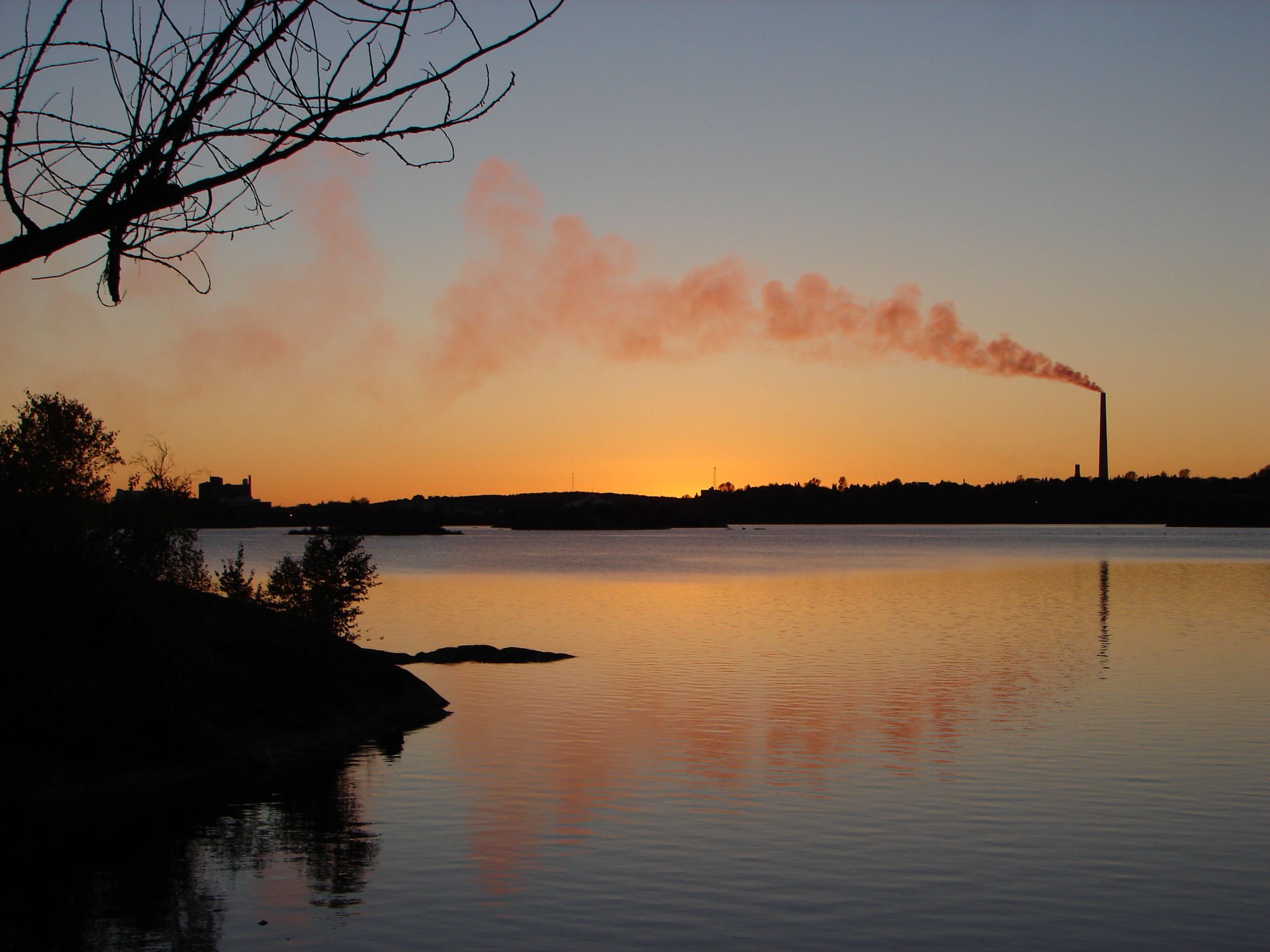 Sunset skyline of Sudbury, Ontario, Canada, with the Inco Superstack seen across Ramsey Lake.